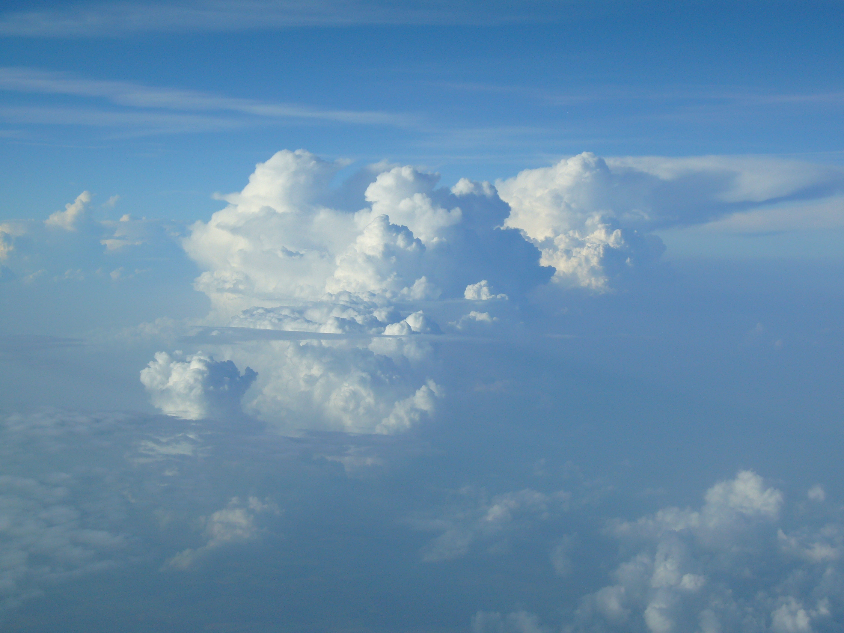 An isolated cumulonimbus cloud over Germany/Czech Republic, picture taken at an altitude of about 26,000 feet.